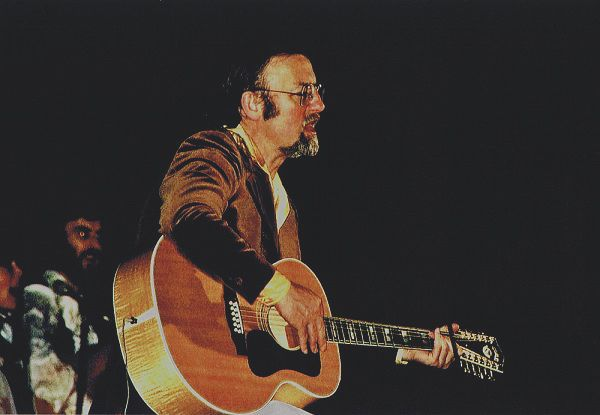 Roger Whittaker during a concert given at the Weser-Ems-Hall at Oldenburg (Lower Saxony, Germany) in 1976